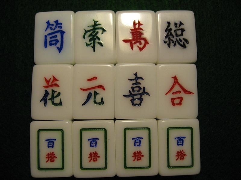 Vietnam Joker